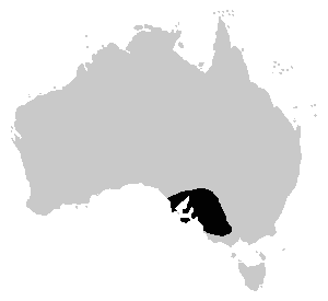 Distribution of the Painted Burrowing Frog (Neobatrachus pictus) User:Froggydarb/GFDL-self